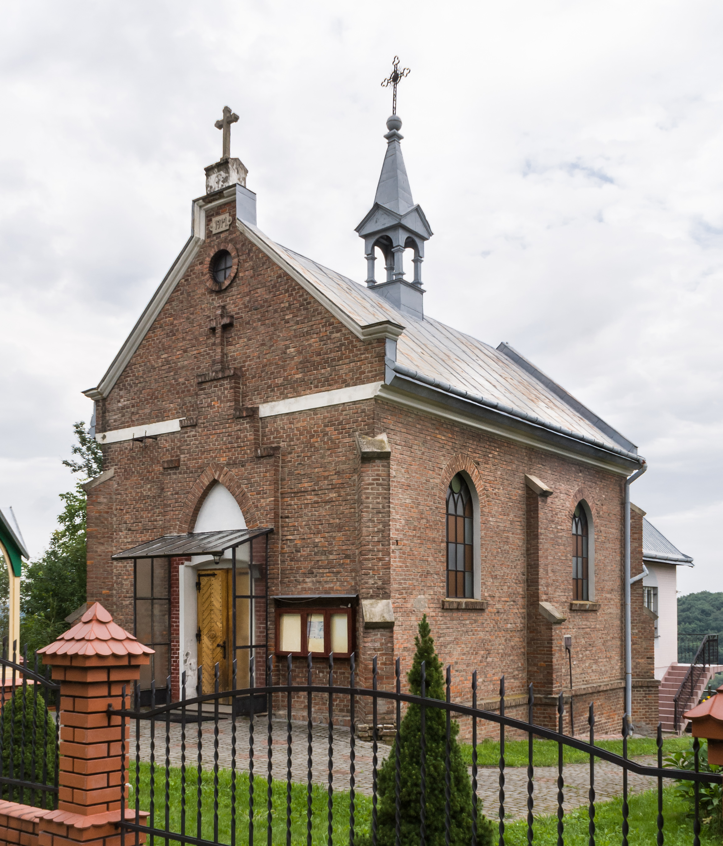 Our Lady Queen of Poland church in Kruhel Wielki, Poland.